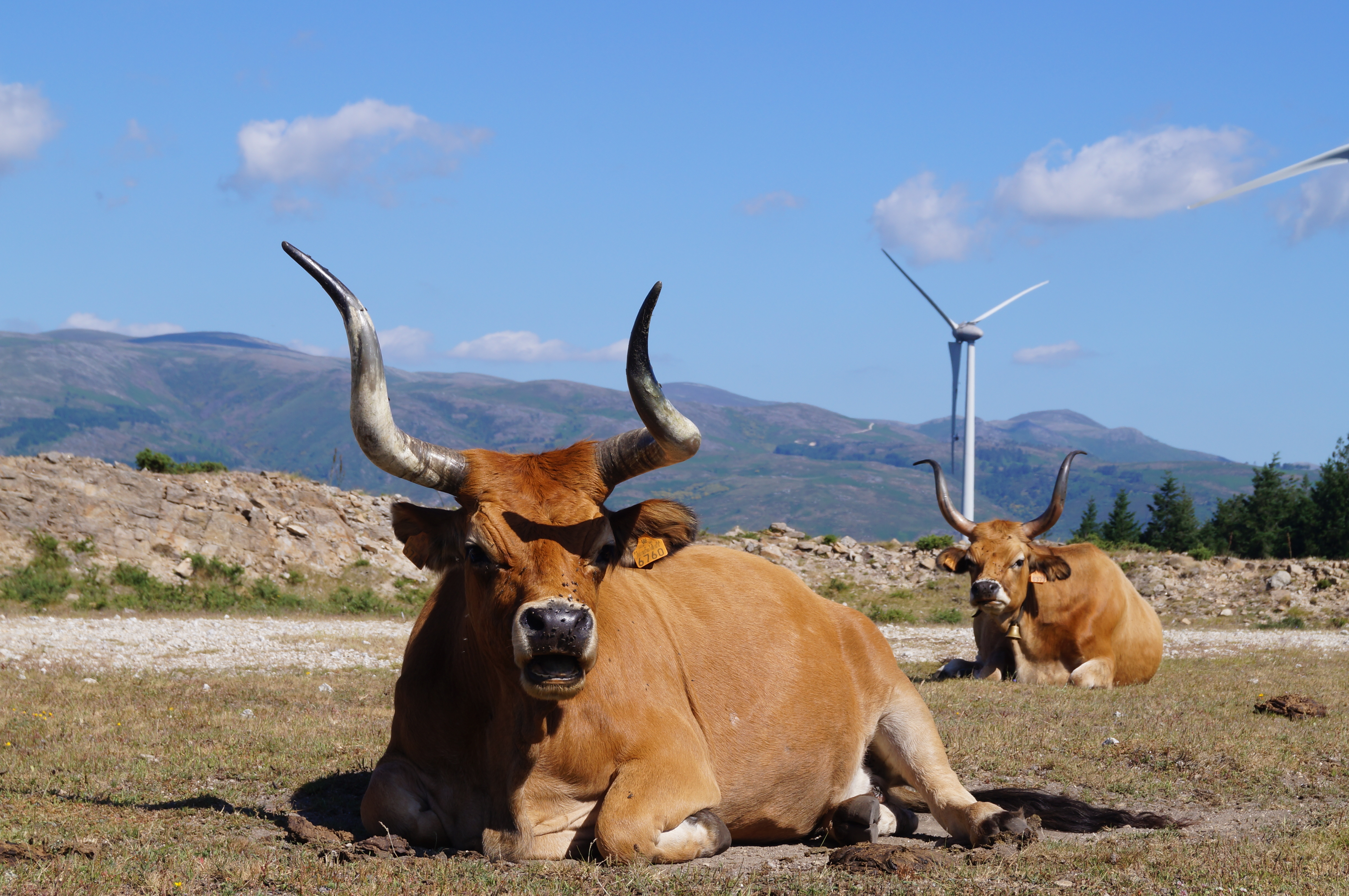 This is a photography of a Site of Community Importance in Portugal with the ID: PTCON0001. Natura2000 entry, EEA entry